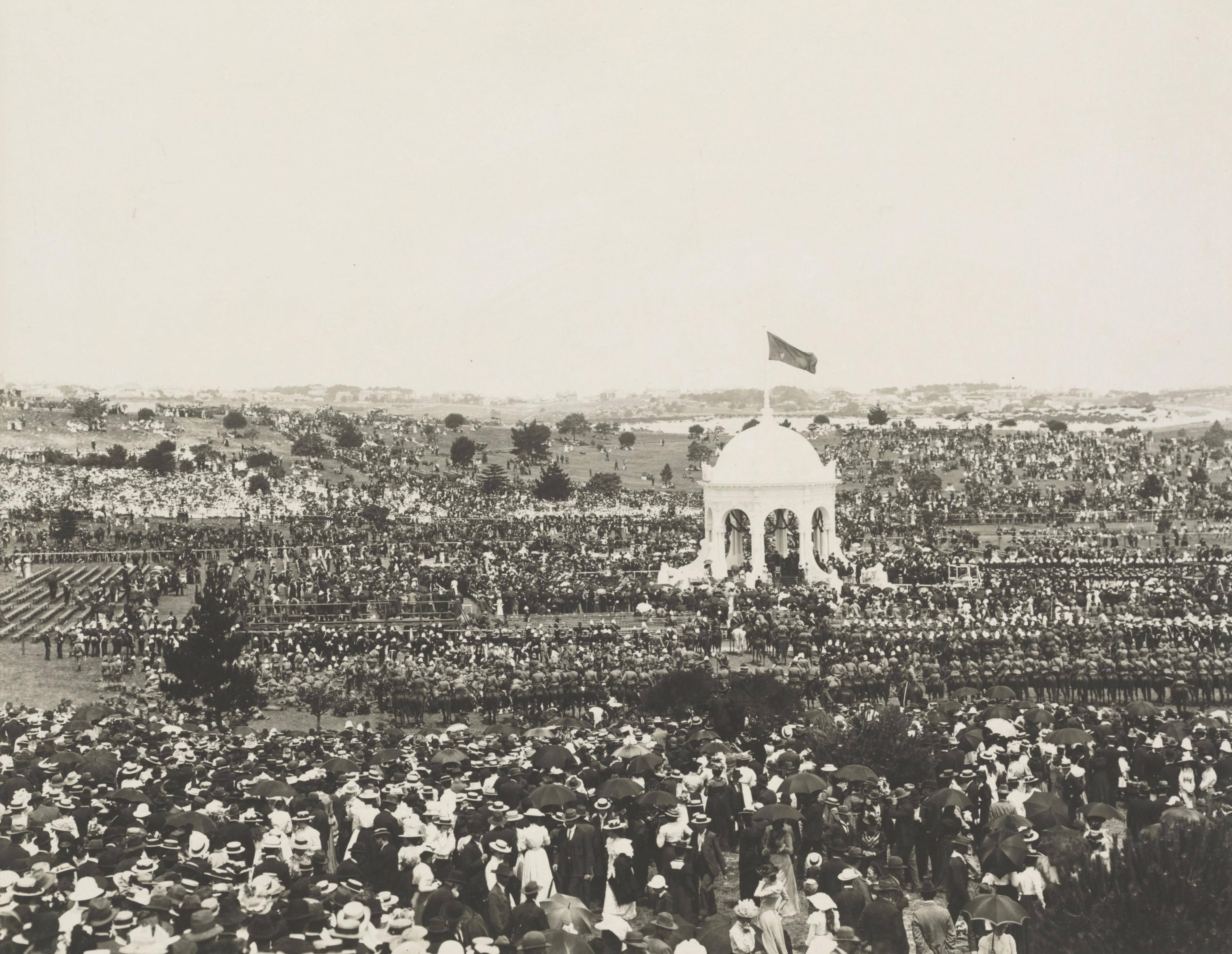 The Federation Pavilion in Centennial Park, Sydney, during the swearing-in ceremony of Australia's first government on 1 January 1901.